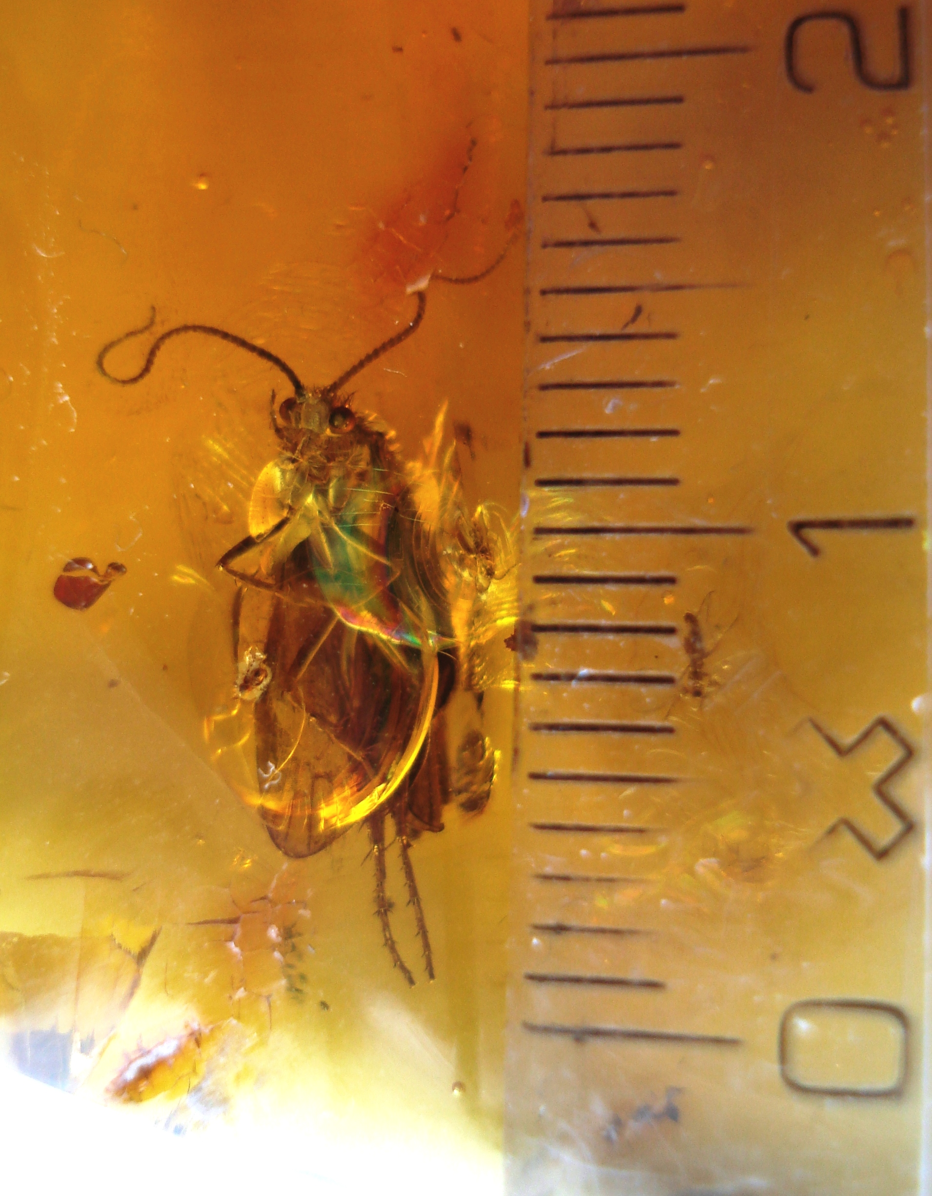 Baltic amber inclusions - 40-50 million years old - Caddisflies (Amphiesmenoptera, Trichoptera, ...?). About 13 mm long (from the head and to the rear of the last leg). There are 5 photos of this Trichoptera in this category: Fossil Trichoptera. The images have the same name as this just added a number between 1 and 5 after the brackets.